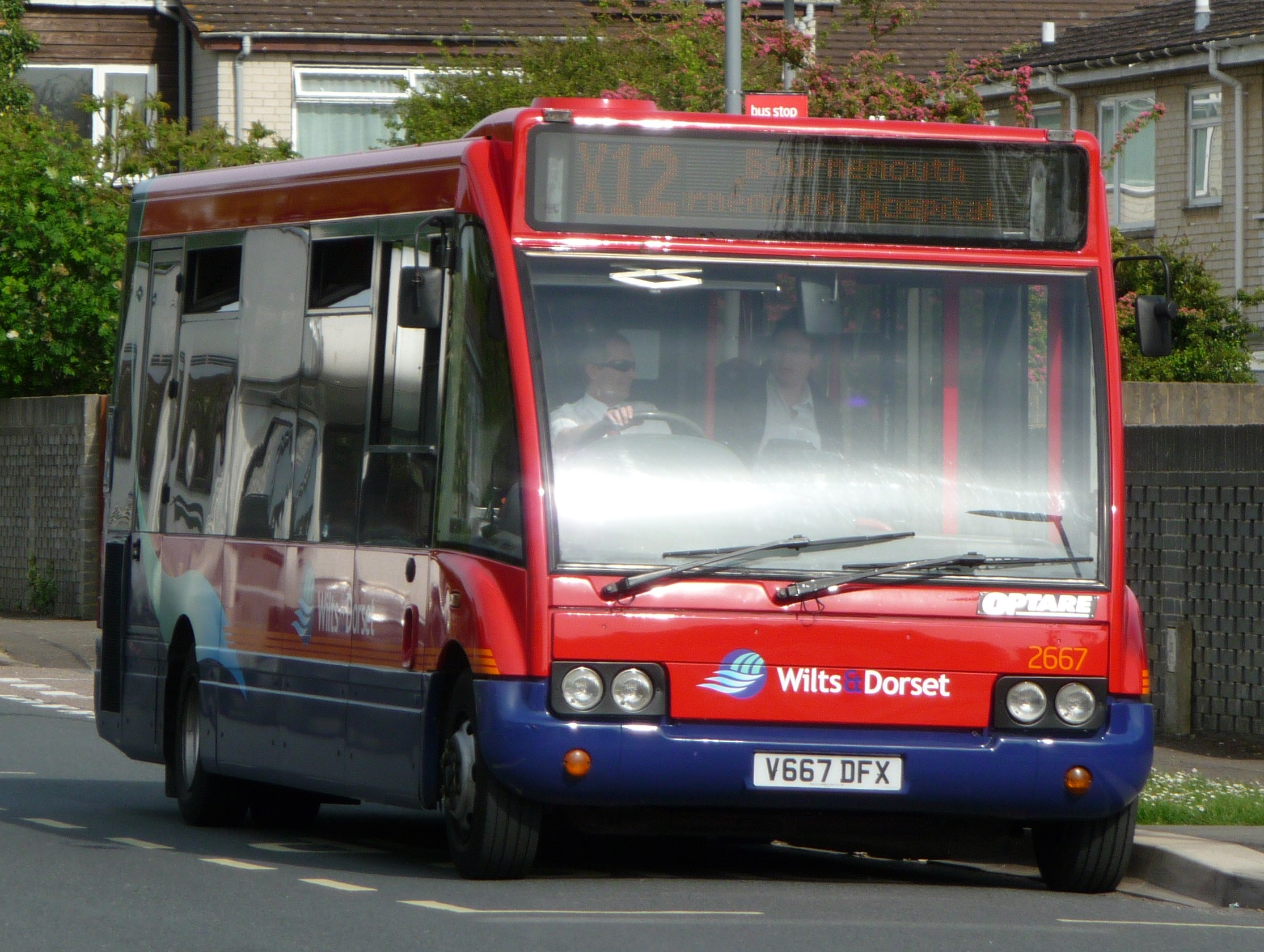 Wilts & Dorset bus 2667 (reg. V667 DFX), a 1999 Optare Solo M850 midibus, in Campbell Road, Burton, Christchurch, on route X12. It is seen less than a month before the Burton leg of the service was withdrawn on 24 May 2009.